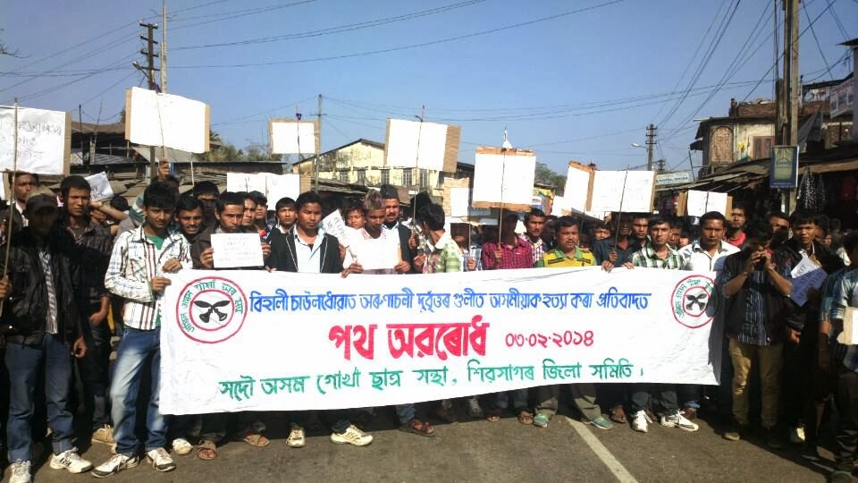 AAGSU Protest against behali killings